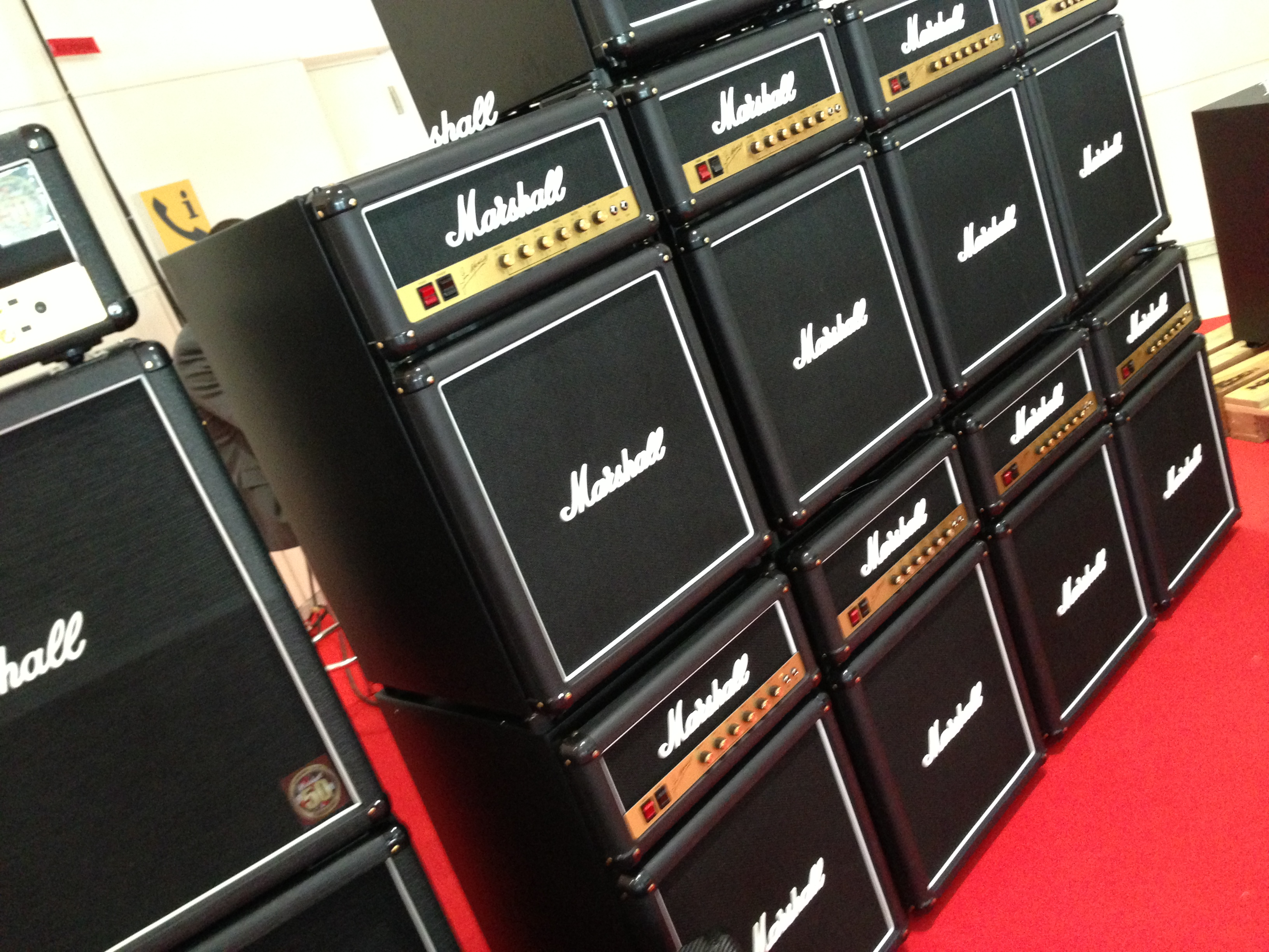 Marshall Kühlschrank Flickr Tags: Marshall Kuhlschrank Refrigerator Guitar. References Marshall Fridge. Tronto, Canada: XMC Branded Products Inc..